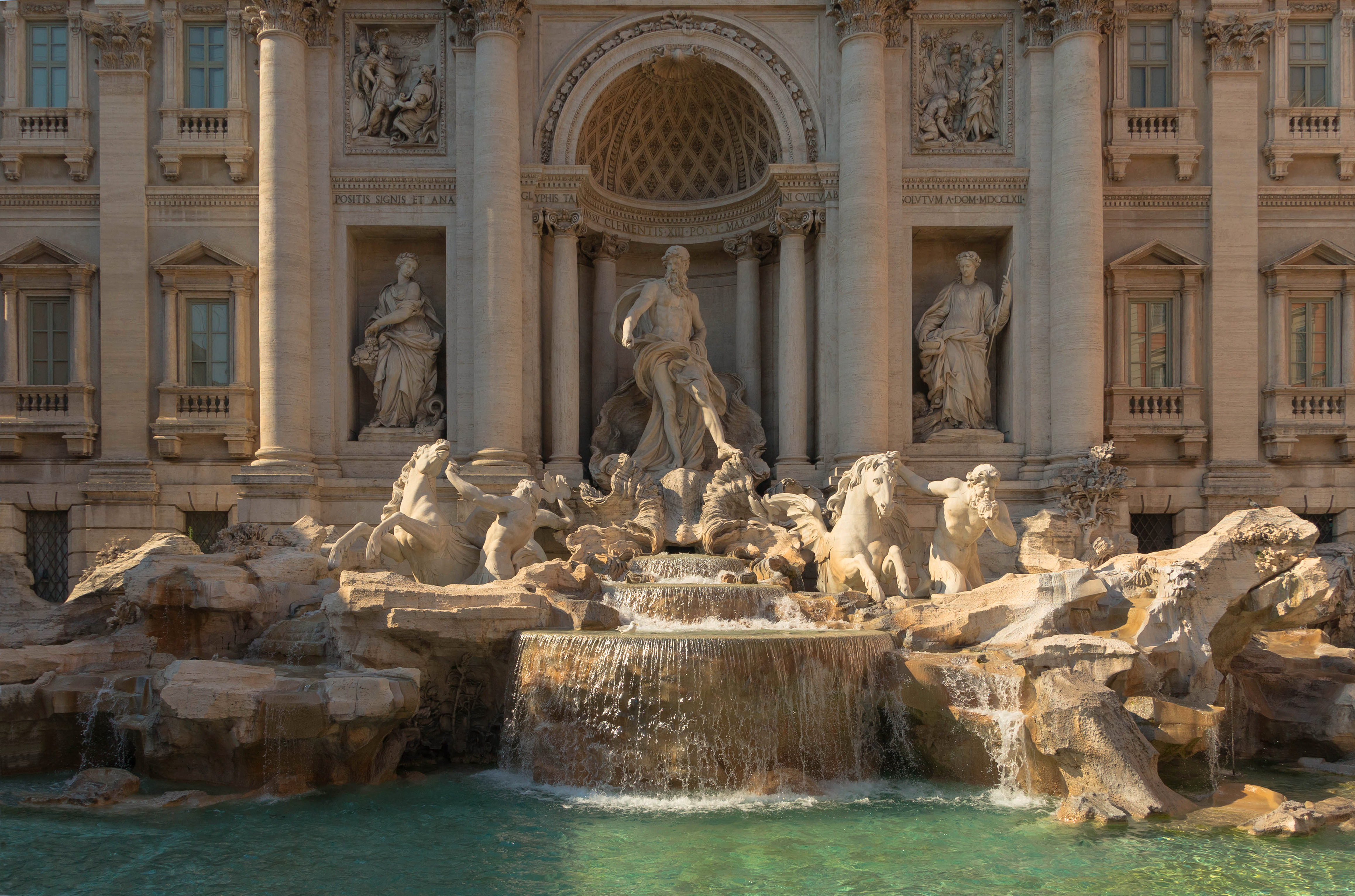 The Trevi Fountain, detail. Rome, Italy.